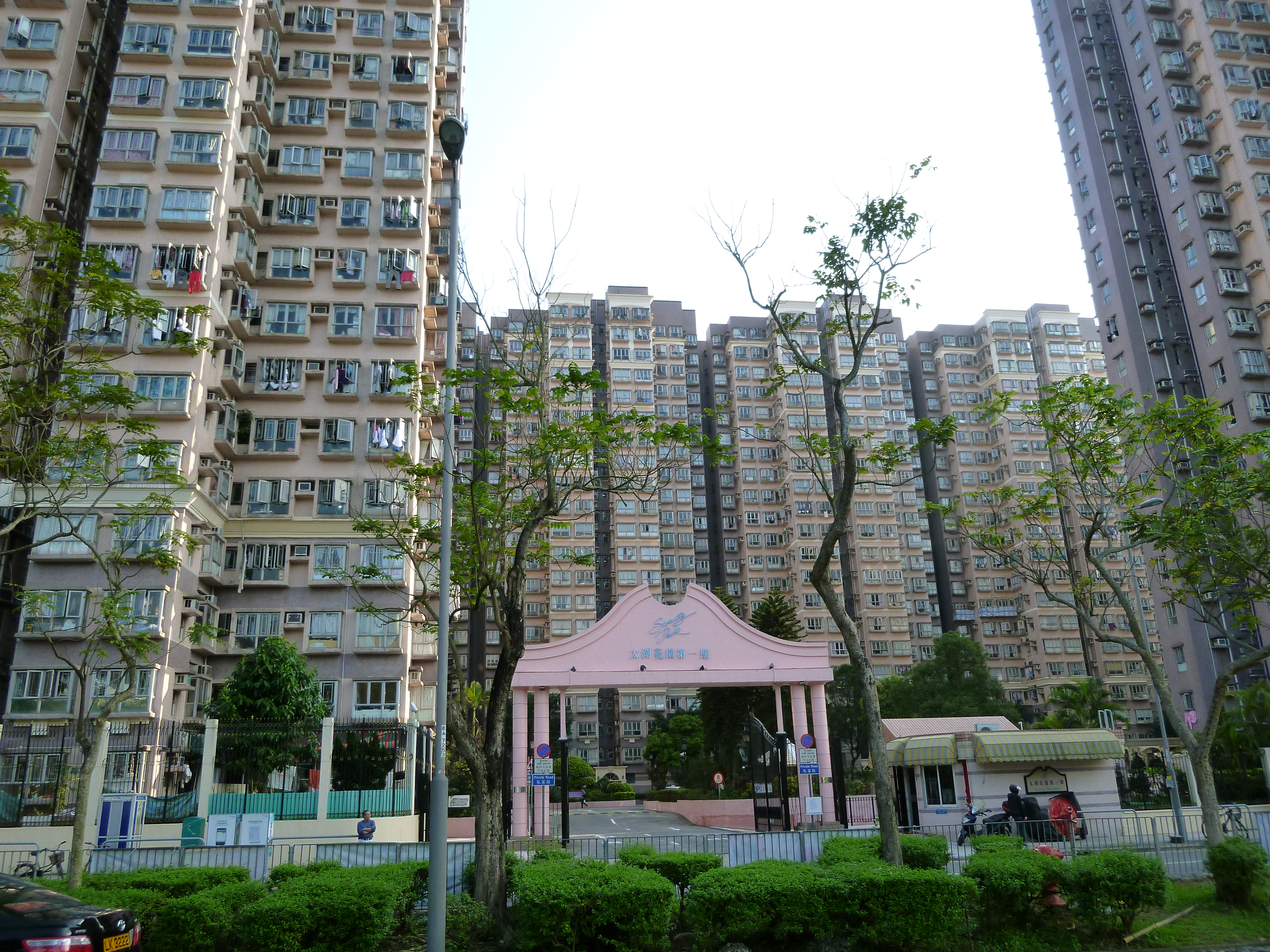 Serenity Park (Tai Po, Hong Kong)